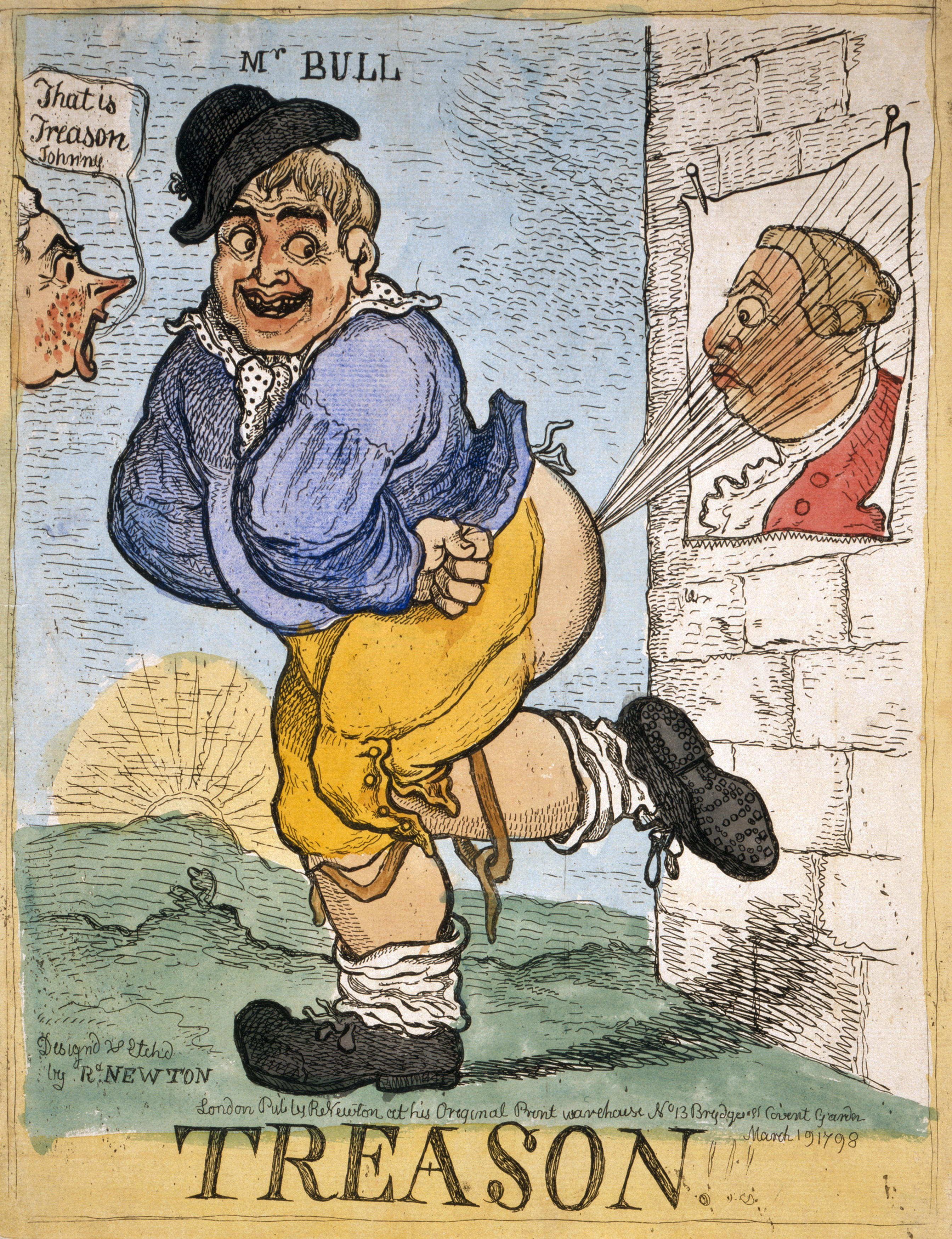 Treason!!! John Bull explosively farts at a poster of George III, as an outraged William Pitt the Younger chastises him. Newton's etching was probably a comment on Pitt's threat (realized the following month) to suspend habeas corpus.